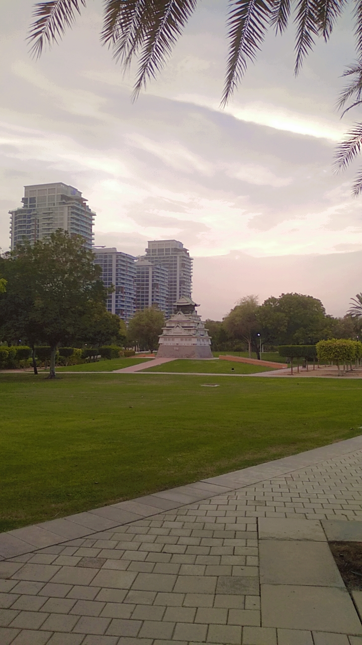 Dubai frame